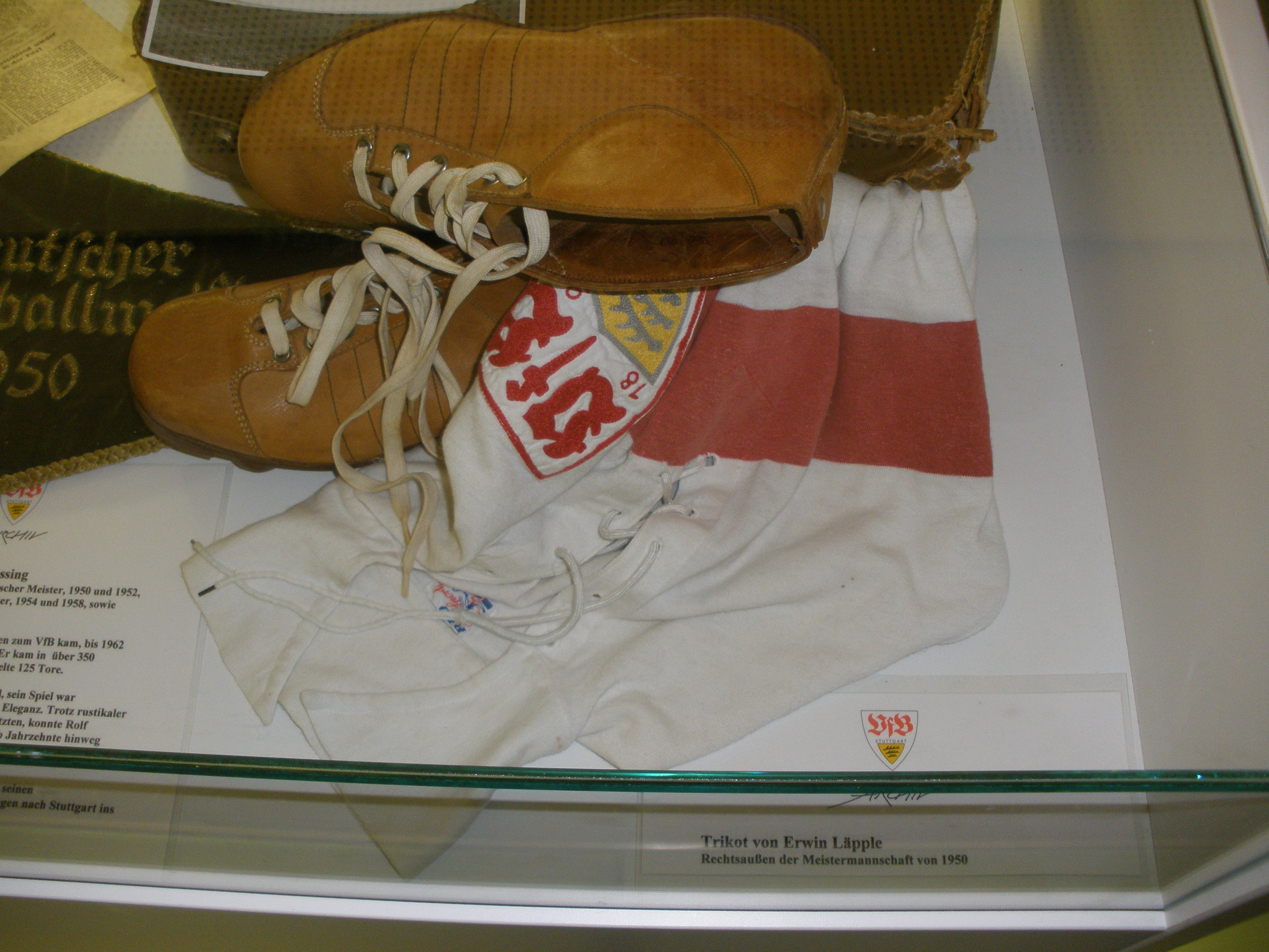 Jersey of Erwin Läpple, German football Champion with VfB Stuttgart in 1950 and 1952.